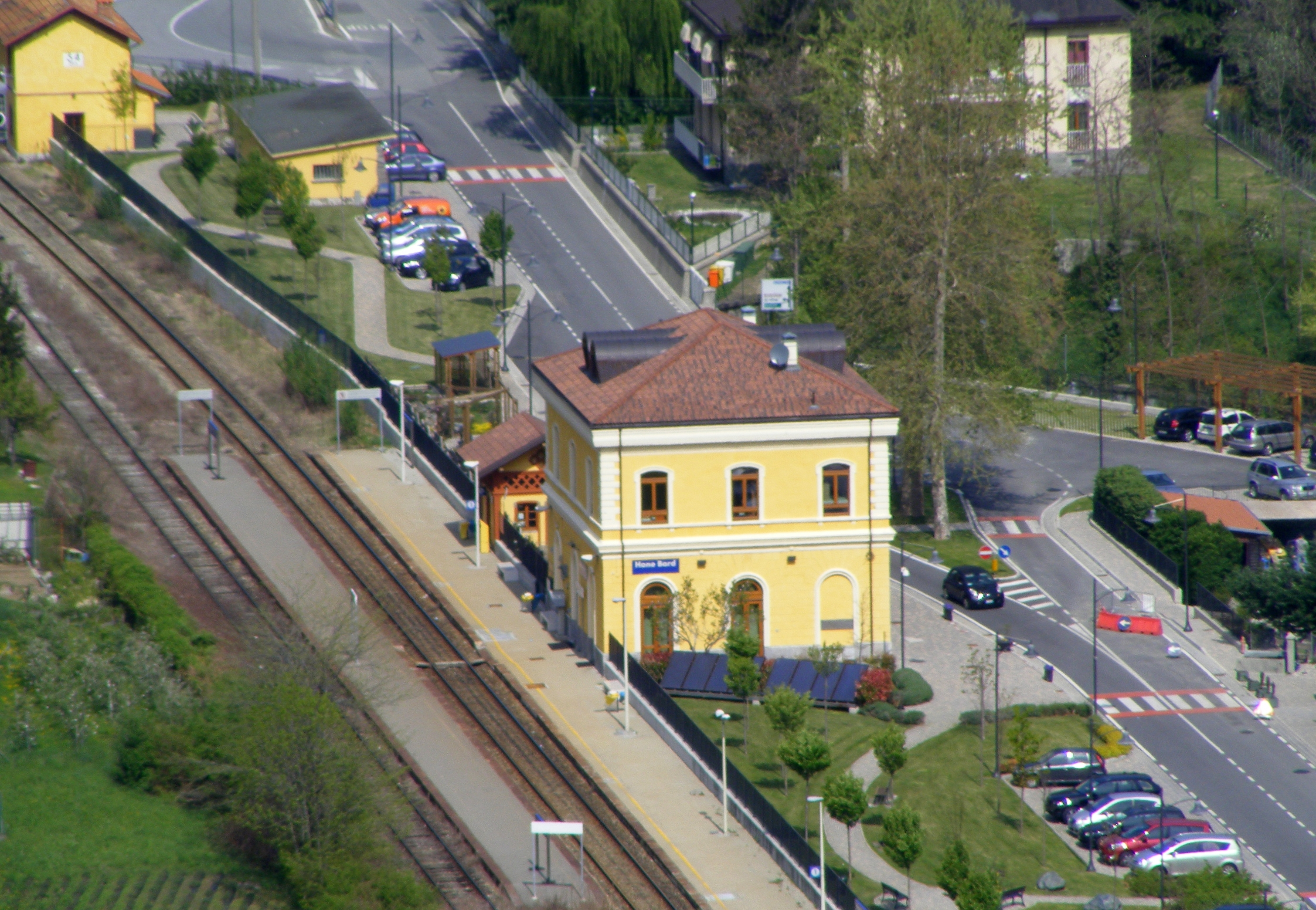 Hône-Bard train station (AO, Italy)